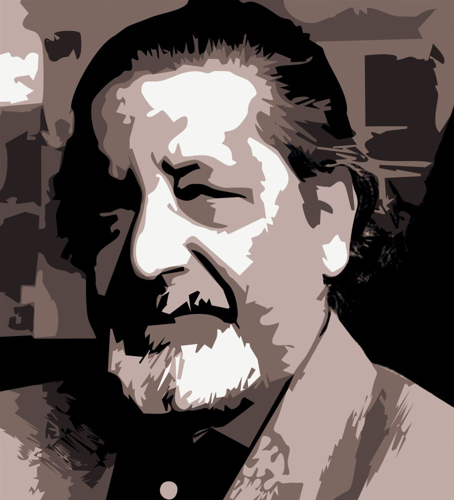 "Drawing" of V.S. Naipaul. Computer-software enhanced photo by JackNL, based on several photographs